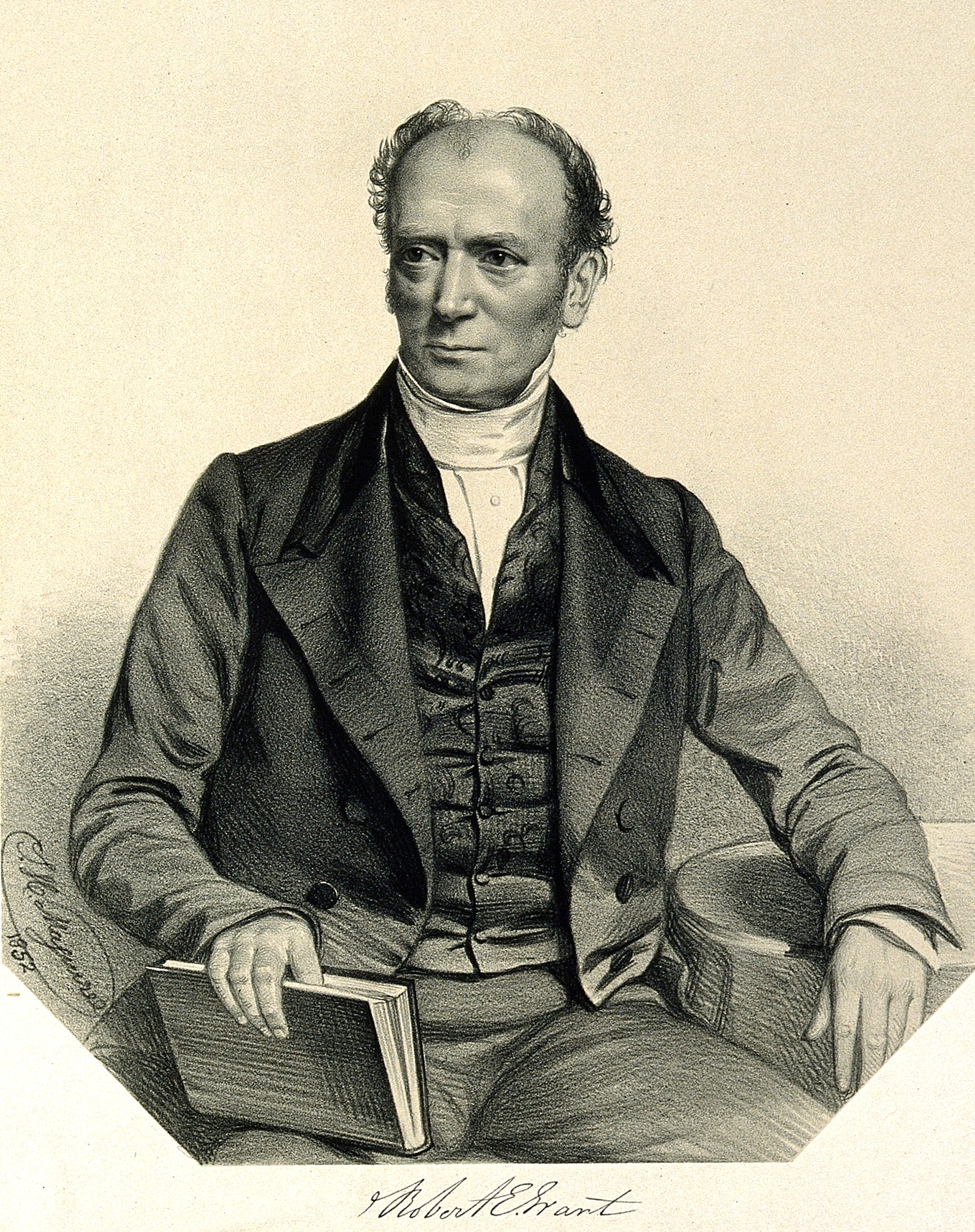 photographic reproduction of a lithograph